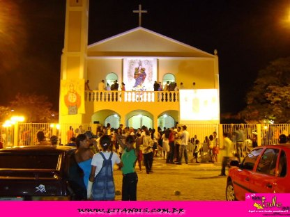 Araci